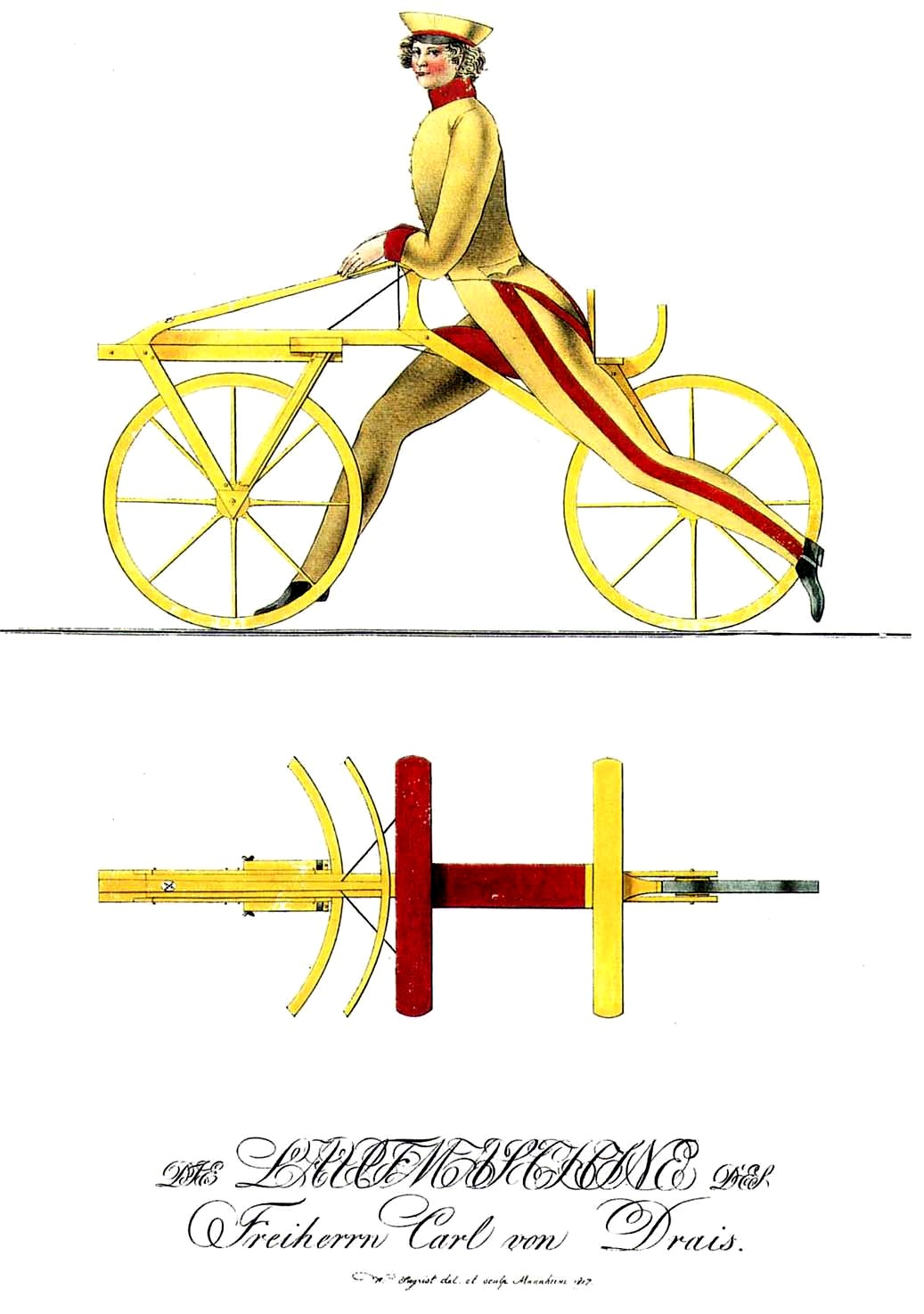 Original draisine made -to-measure with staff messenger